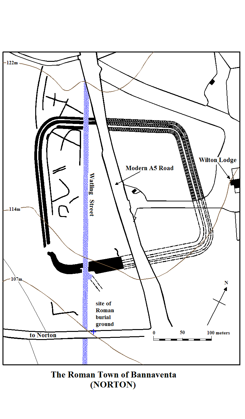 An Image created of the site of the Roman Town of Bannaventa created by Stavros1 (talk) 21:40, 25 January 2008 (UTC) using AutoCAD Software and saved as a Png file 25th January 2008